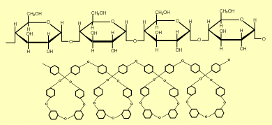 Amilosa